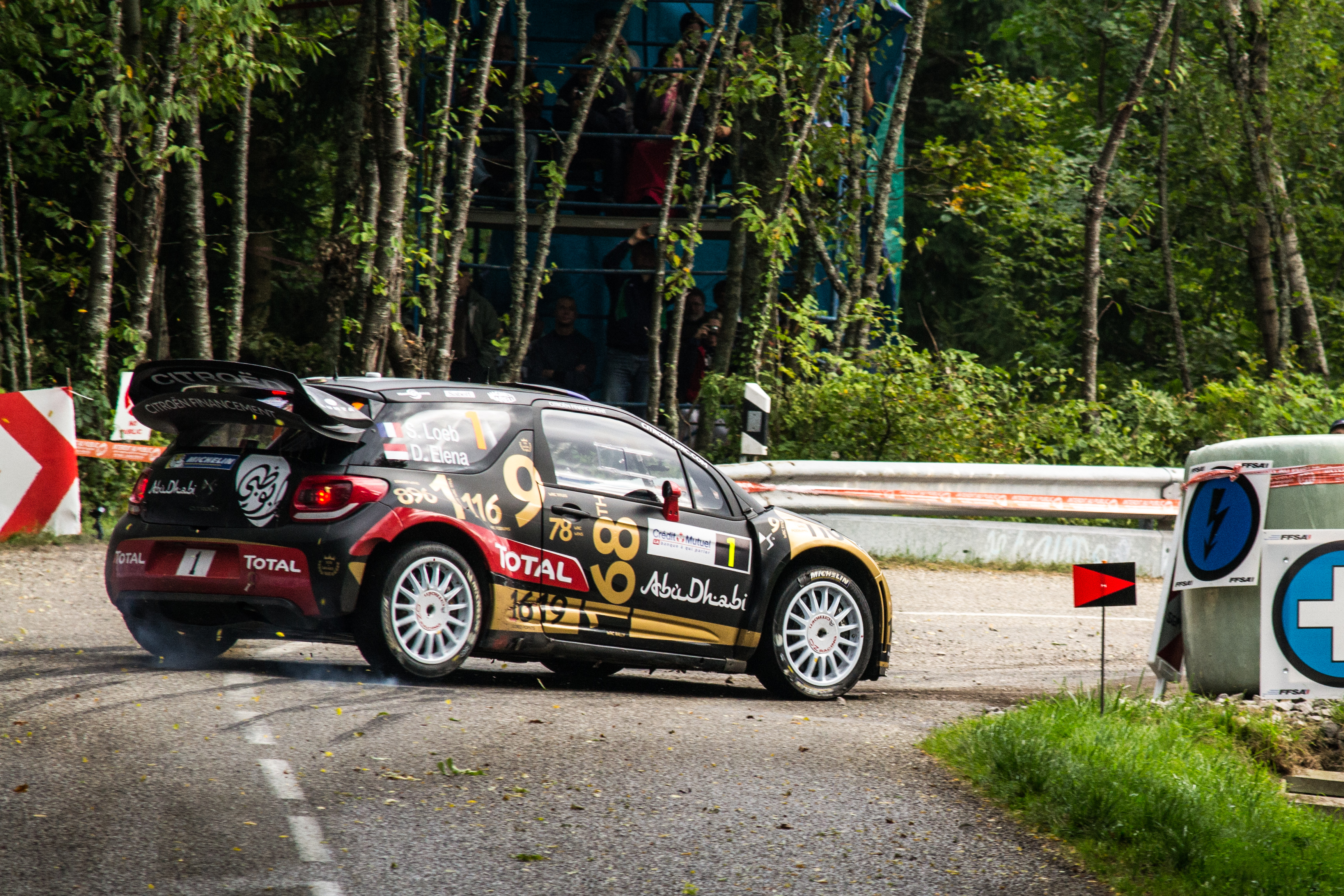 Loeb Alsace 2013